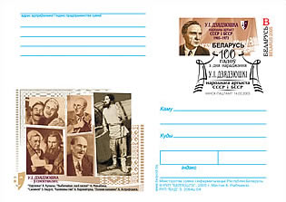 Stamp of Belarus